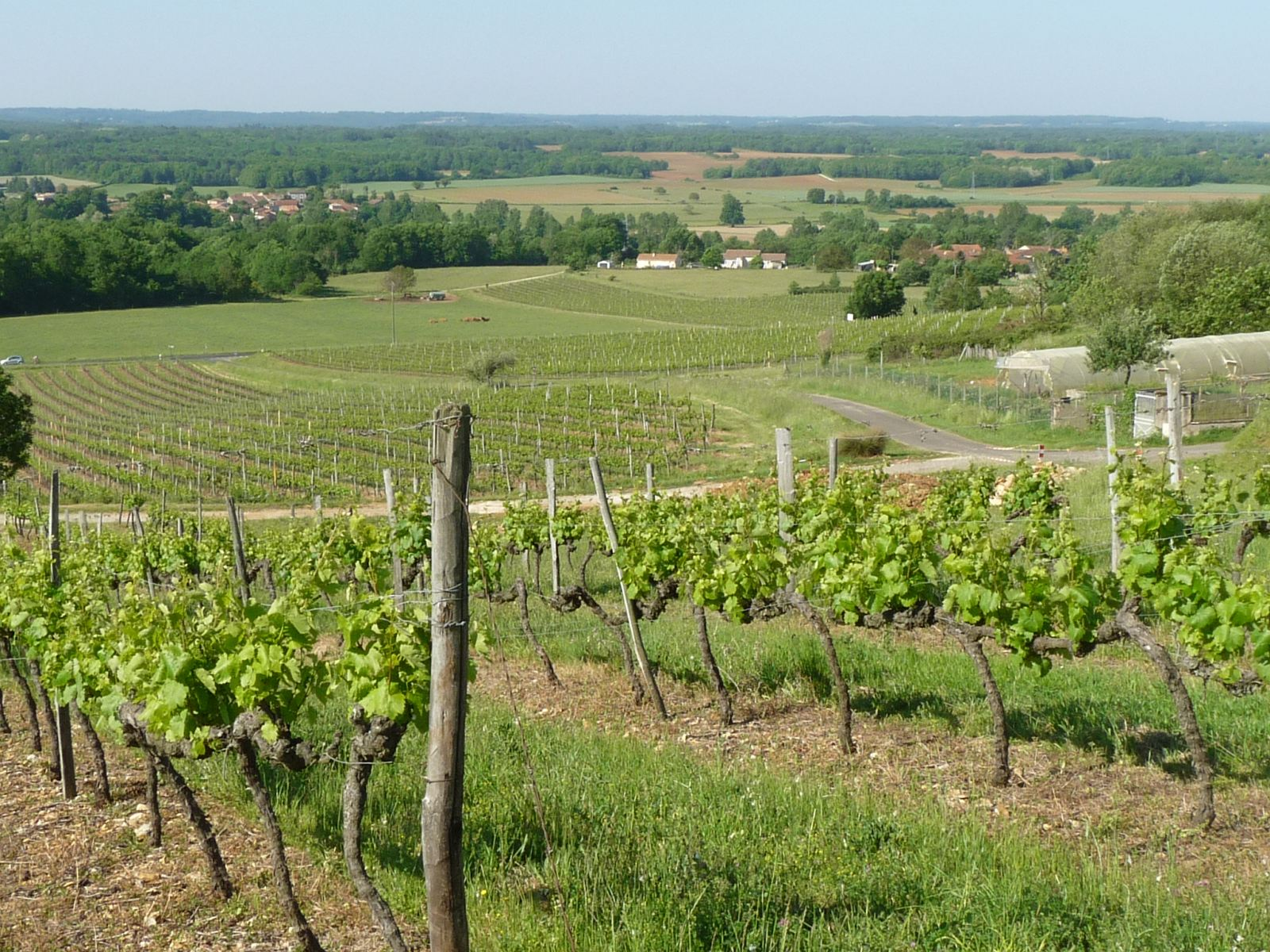 Vineyards of Saint-Sornin, Charente, SW France